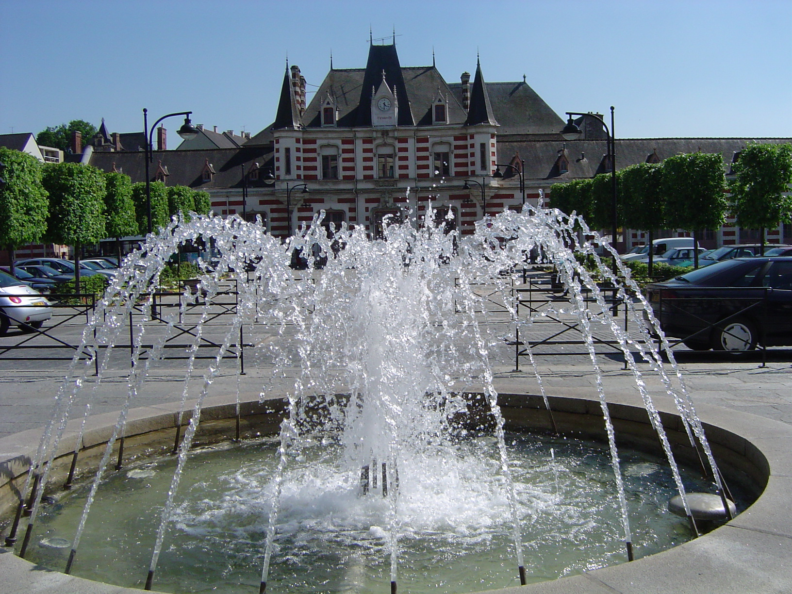 Station of Vitré